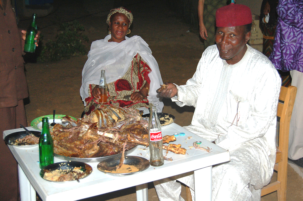 A festive meal at an outdoor table in Diffa Niger, April 2006. This date would coincide with Nigerien Maloud (The Prophet's Birthday, Malwid).